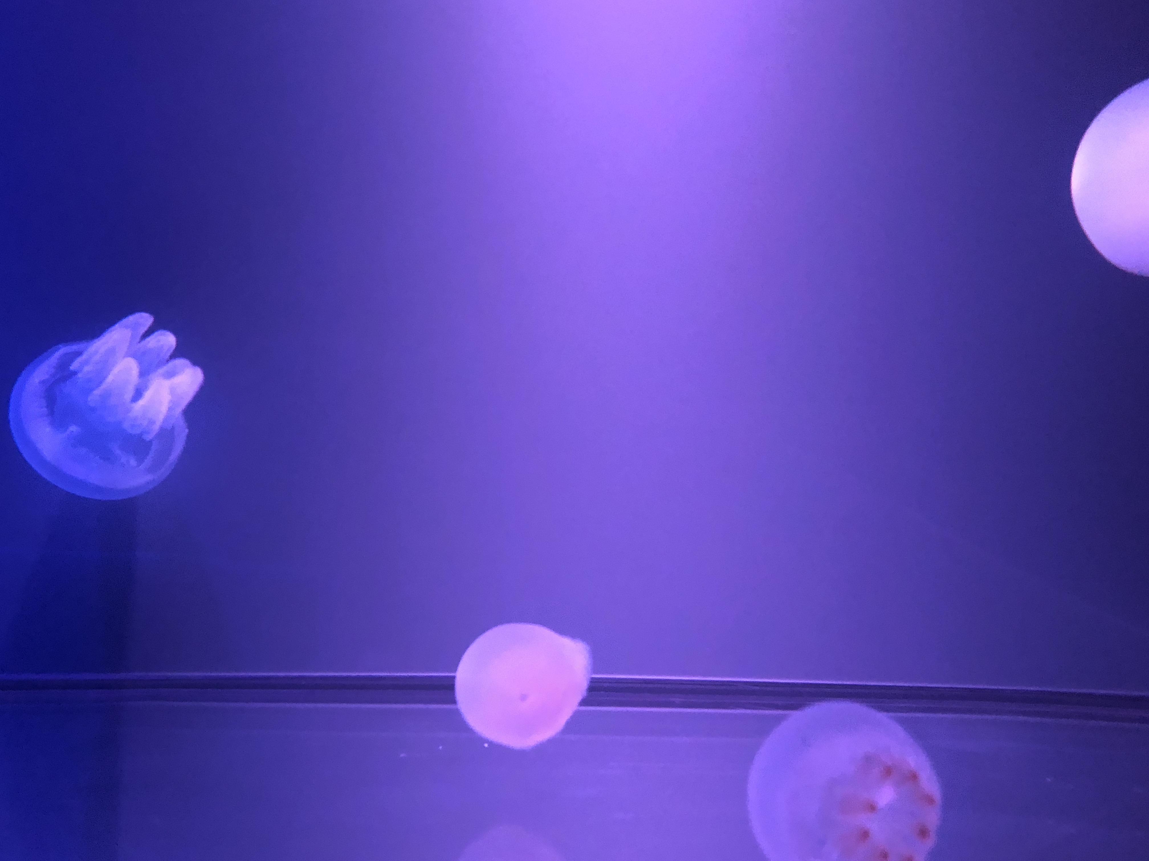 中文（中国大陆）: Jellyfish in Sumida Aquarium, Tokyo.